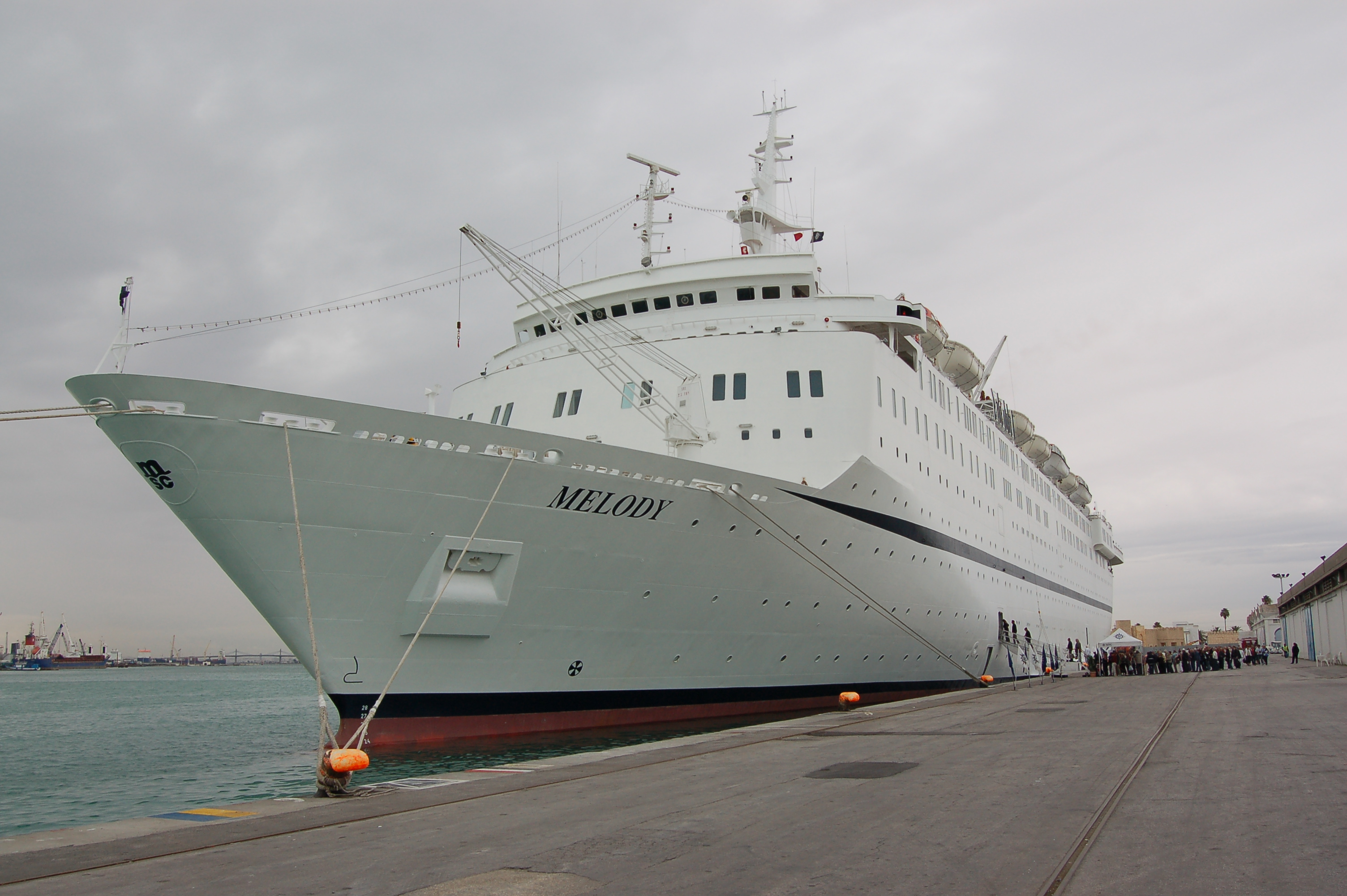 MSC Melody tied up at La Goulette, Tunisia, view of the bow